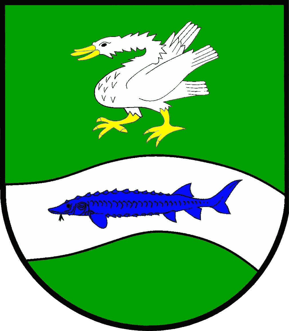 Coat of arms of the municipality Bahrenfleth in Schleswig-Holstein, Germany.